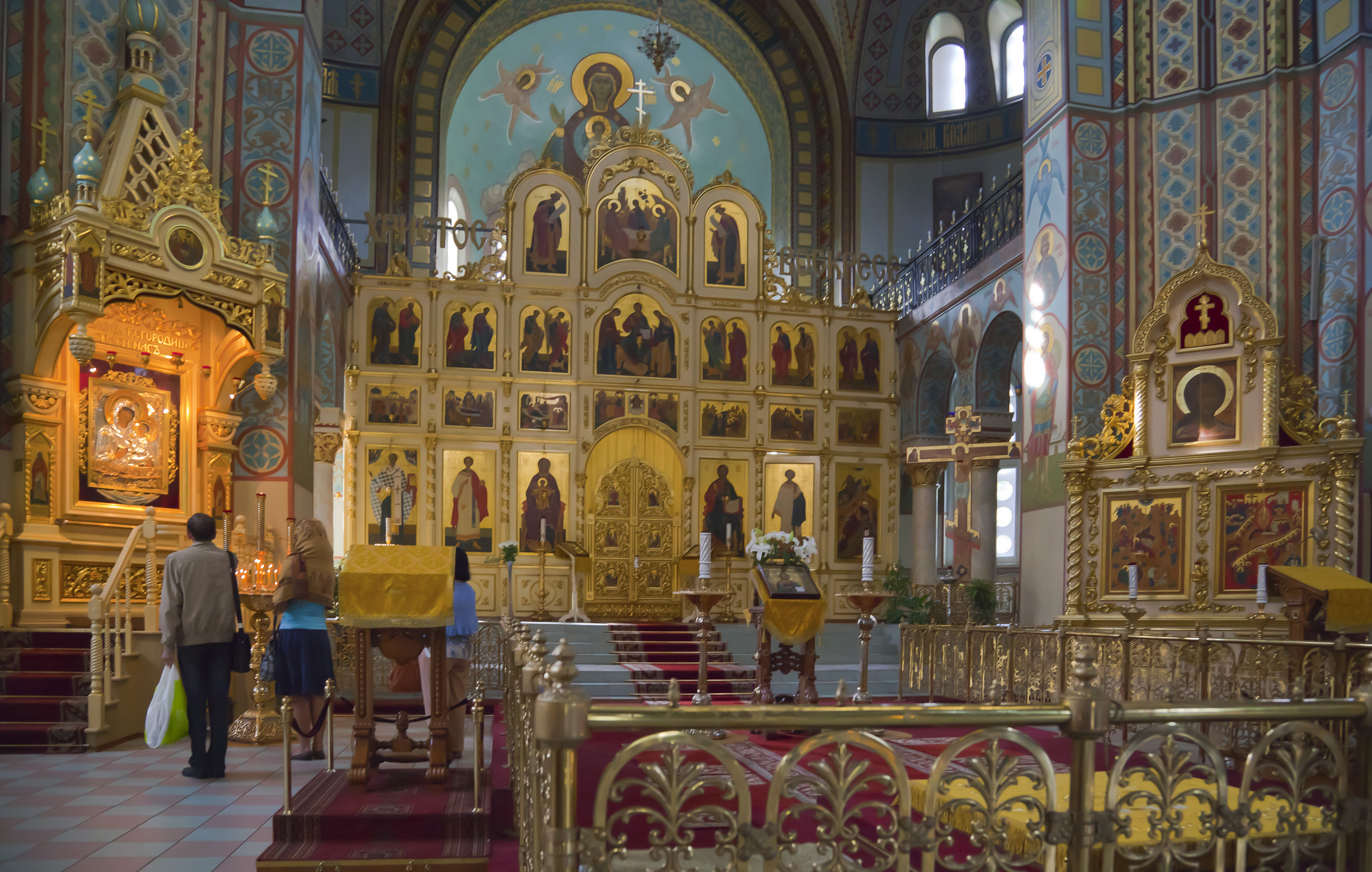 Cathedral of the Nativity of Christ, Riga, Latvia